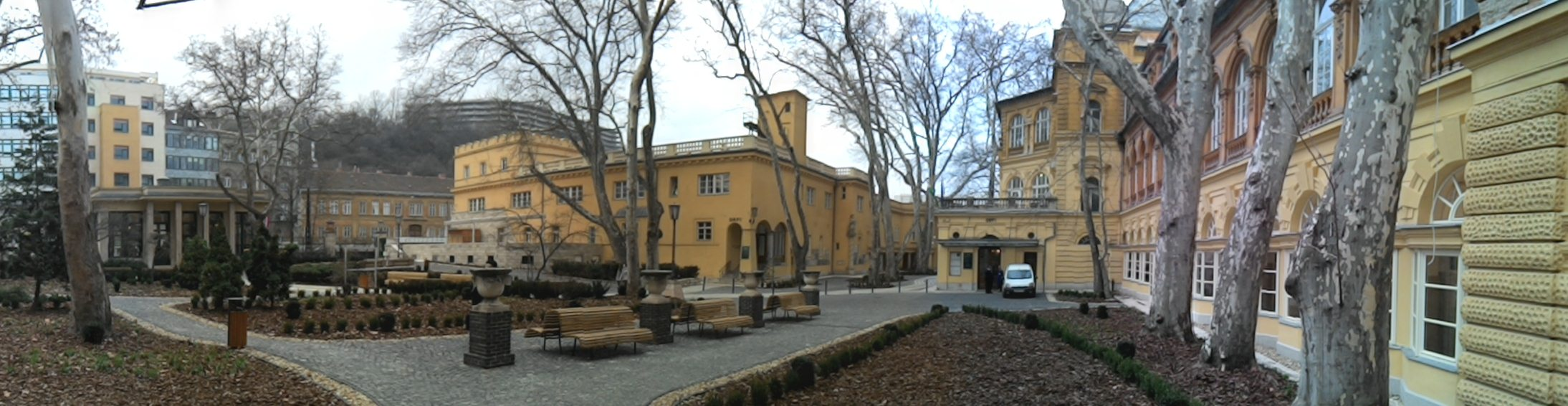 Garden of Szent Lukács Bath, Budapest